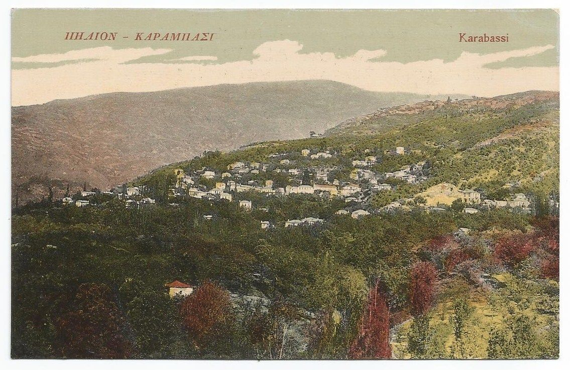 The village of Agios Vlasios (then known as Karabassi), near Volos, Greece in a coloured postcard mailed in 1917.